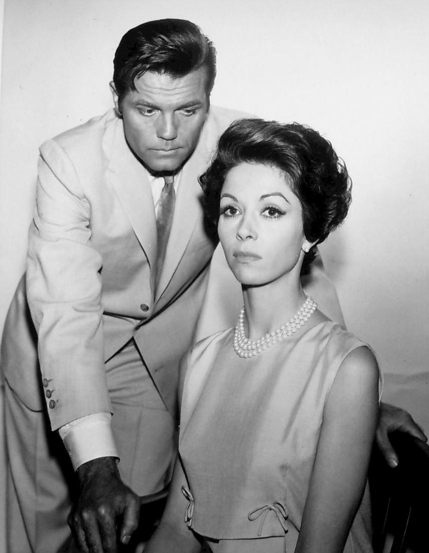 Photo of Jack Lord and Dana Wynter from the television program Bob Hope Presents the Chrysler Theatre.